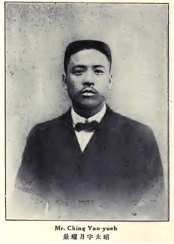 Jing Yaoyue (1882-1944)